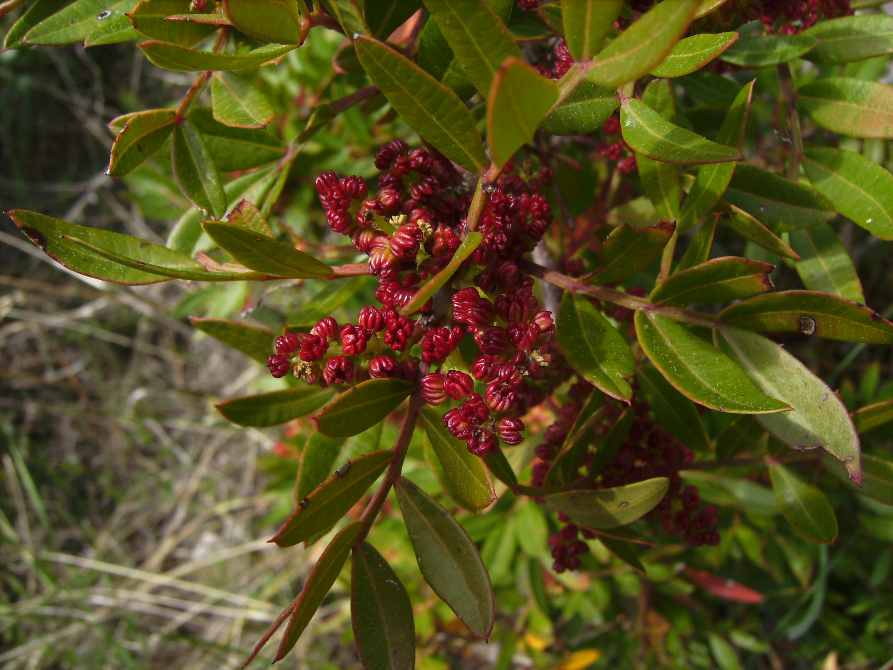 Lentisk (Pistacia lentiscus) start flowering, Castelltallat, Catalonia